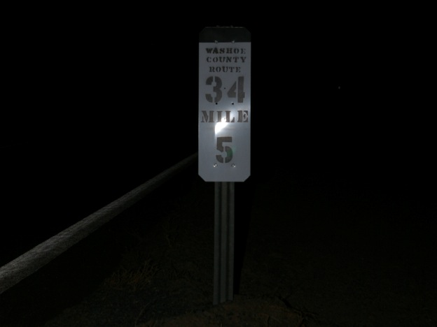 Milepost along former Nevada State Route 34